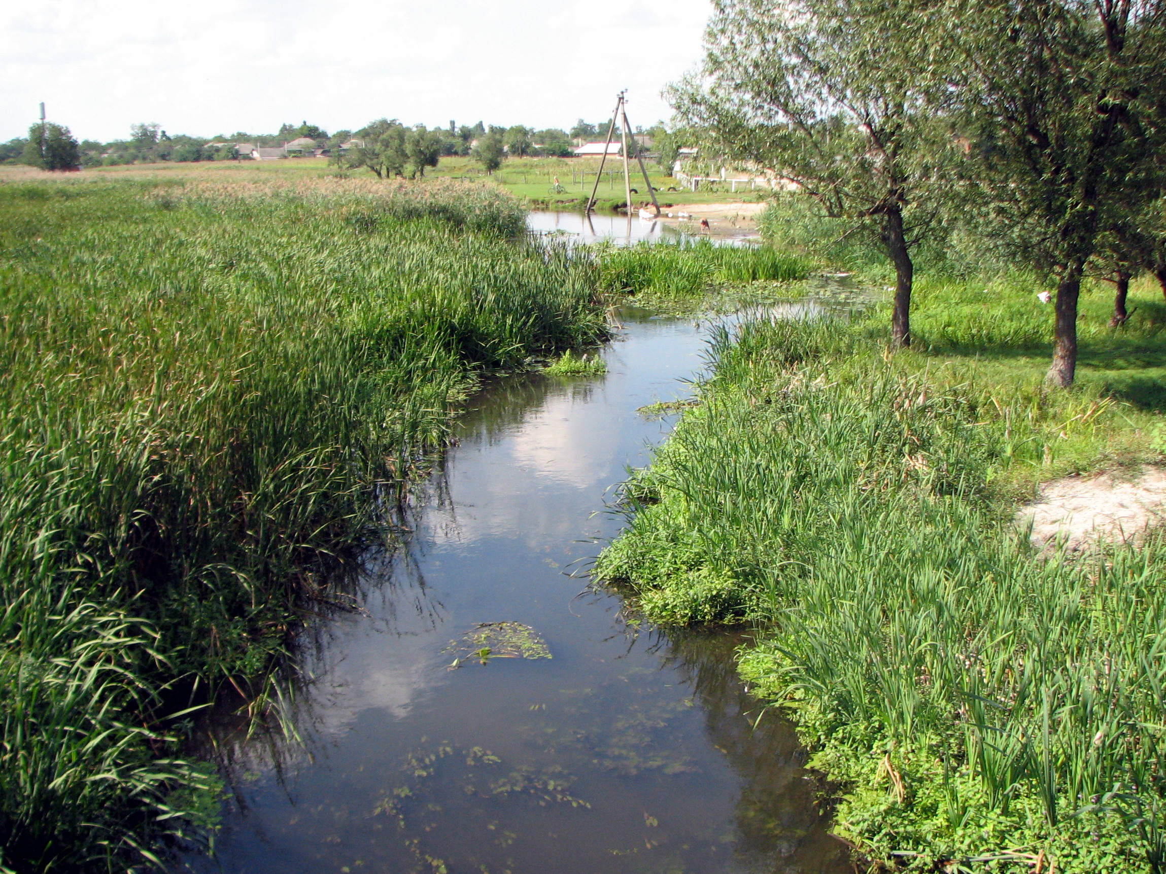 Savranka river in the Savran